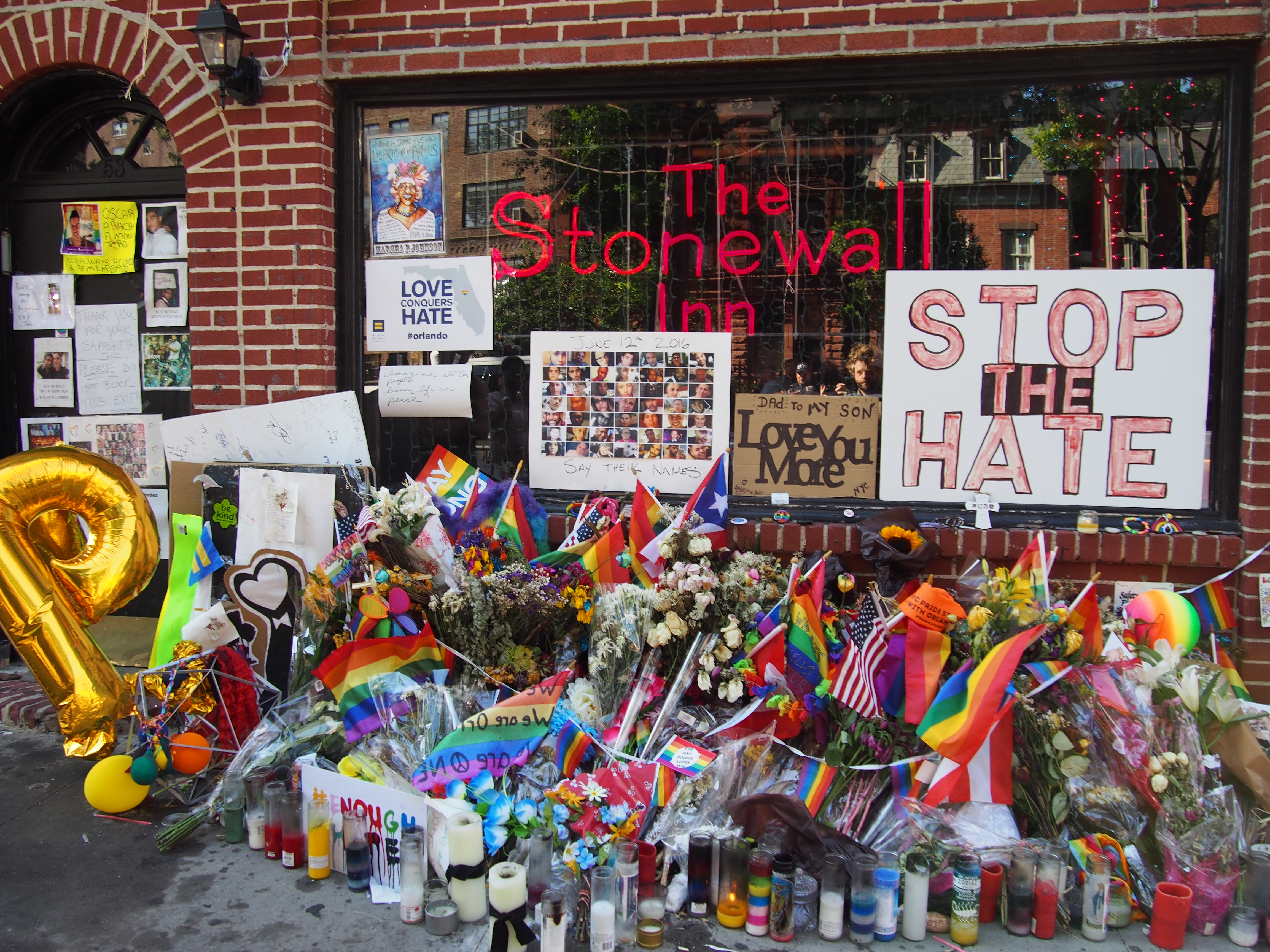 Stonewall Inn, a gay bar on Christopher Street in Manhattan's Greenwich Village. A 1969 police raid here led to the Stonewall riots, one of the most important events in the history of LGBT rights (and the history of the United States). This picture was taken on pride weekend in 2016, the day after President Obama announced the Stonewall National Monument, and less than two weeks after the Pulse nightclub shooting in Orlando.